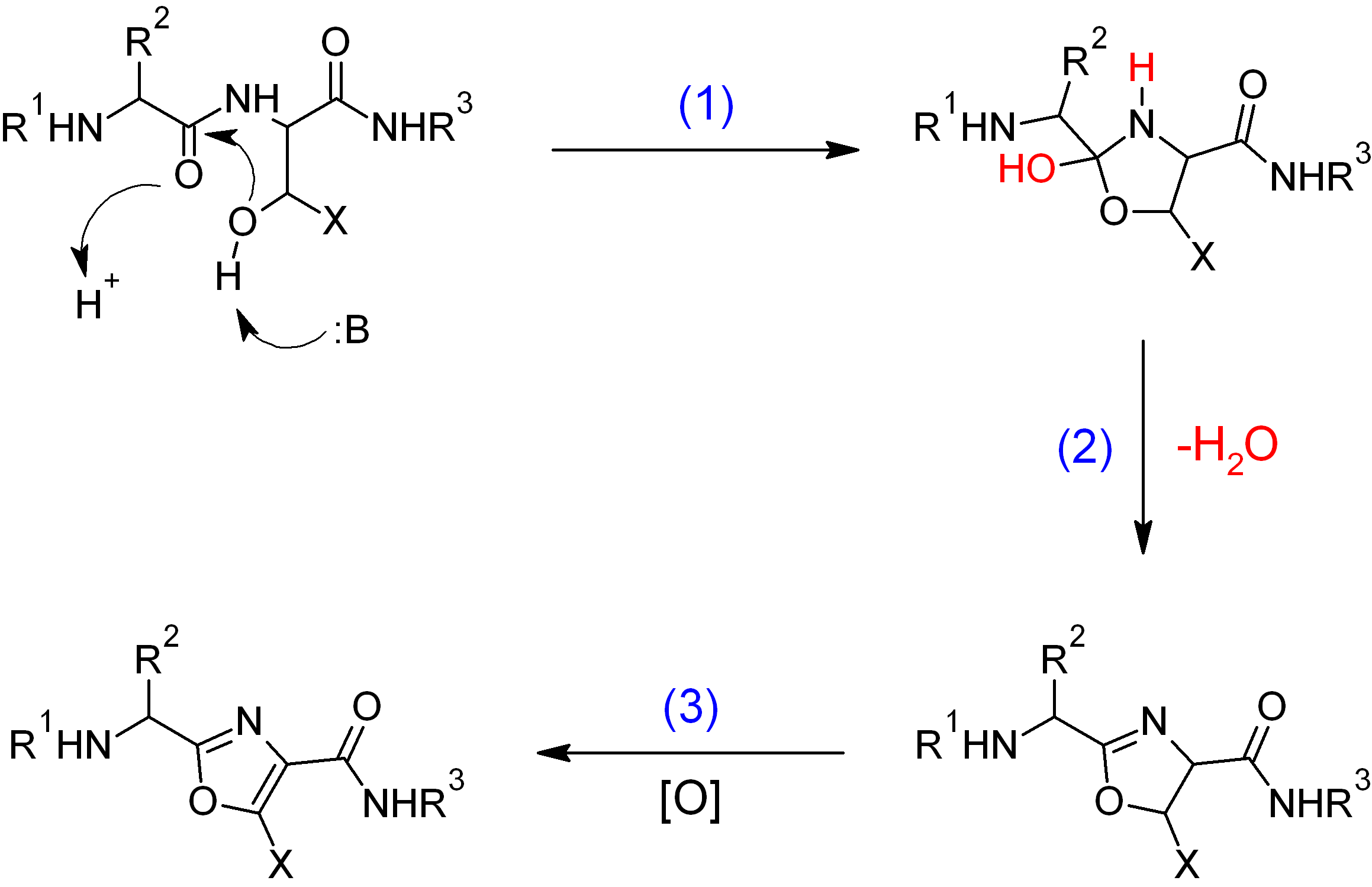 Biosynthesis of oxazoles Suggested captions: Where X = H, CH3 for serine and threonine respectively. (1) Enzymatic cyclicization. (2) Elimination. (3) Enzymatic oxidation.